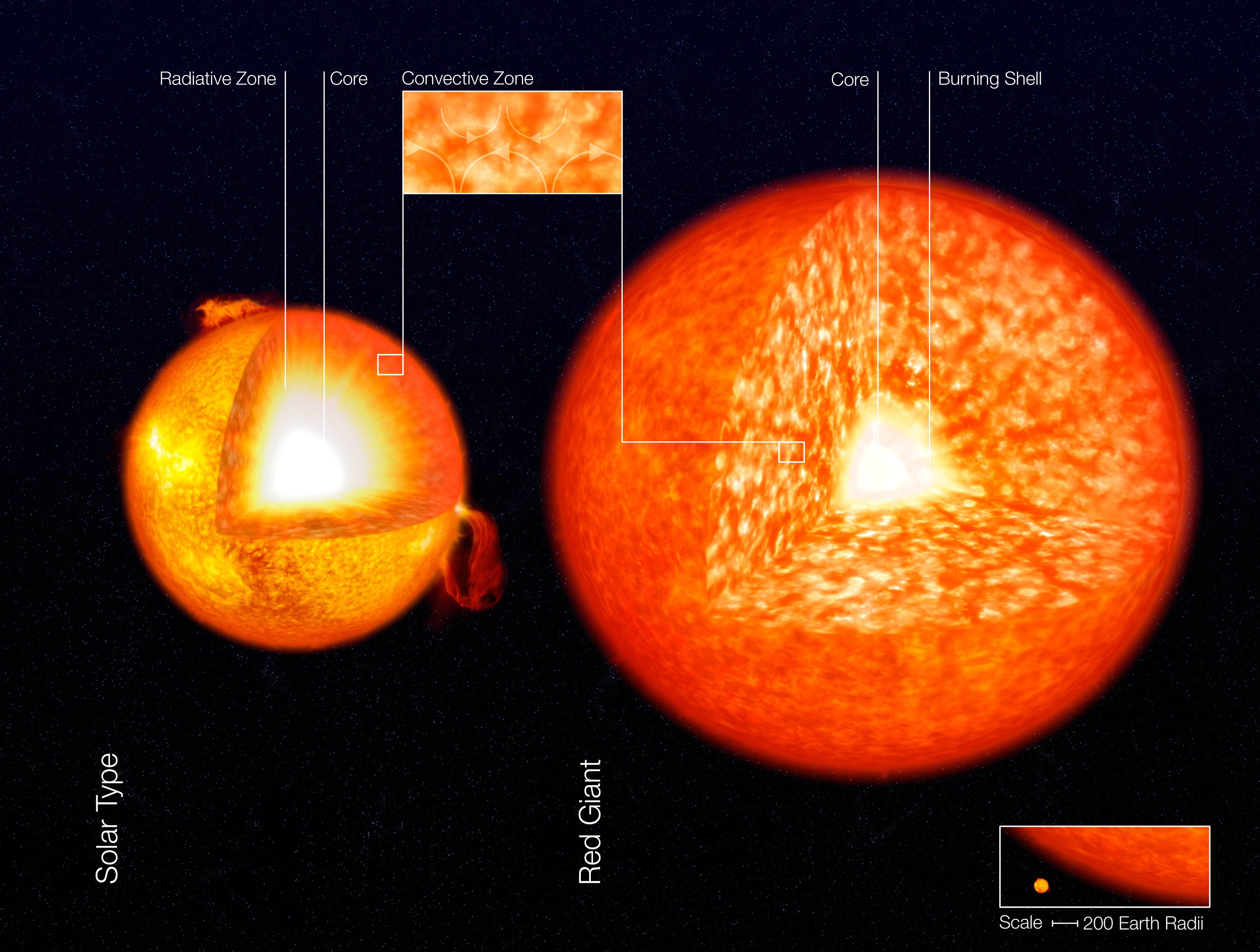 Artist's impression of the structure of a solar-like star and a red giant. The two images are not to scale - the scale is given in the lower right corner. It is common to divide the Sun's (and solar-like stars') interior into three distinct zones: The uppermost is the Convective Zone. It extends downwards from the bottom of the photosphere to a depth of about 15% of the radius of the Sun. Here the energy is mainly transported upwards by (convection) streams of gas. The Radiative Zone is below the convection zone and extends downwards to the core. Here energy is transported outwards by radiation and not by convection. From the top of this zone to the bottom, the density increases 100 times. The core occupies the central region and its diameter is about 15% of that of the entire star. Here the energy is produced by fusion processes through which hydrogen nuclei are fused together to produce helium nuclei. In the Sun, the temperature is around 14 million degrees. In red giants, the convection zone is much larger, encompassing more than 35 times more mass than in the Sun.